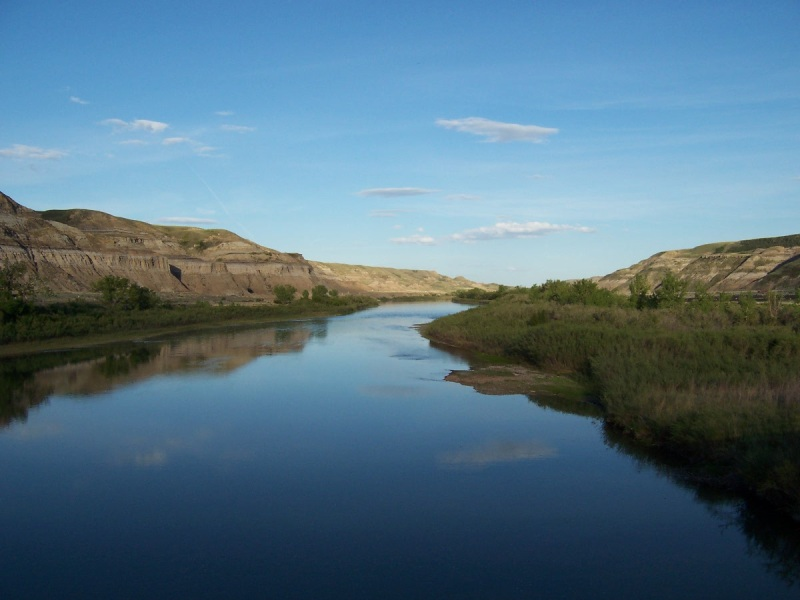 The Red Deer River. Picture taken in Drumheller, Alberta (Canada)